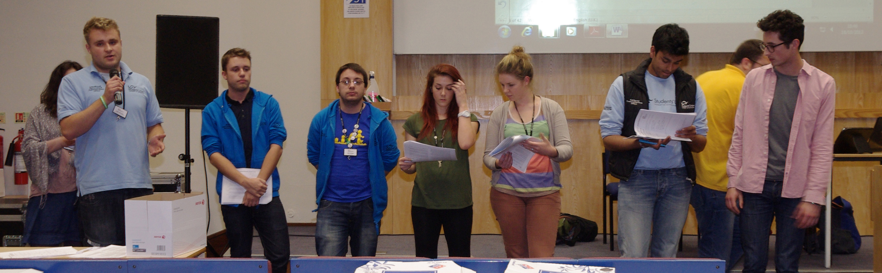 The University of Nottingham Students' Union 411th (1st) Union Council. The Executive Committee answer questions. From left to right: Andrea Pilava, Environmental & Social Justice Officer; Luke Mitchell, Democracy & Communications Officer; Mike Dore, Equal Opportunities & Welfare Officer; Matt Styles, Education Officer; Michelle McLoughlin, Activities Officer; Sian Green, Accommodation & Communities Officer; Amos Teshuva, Union President.